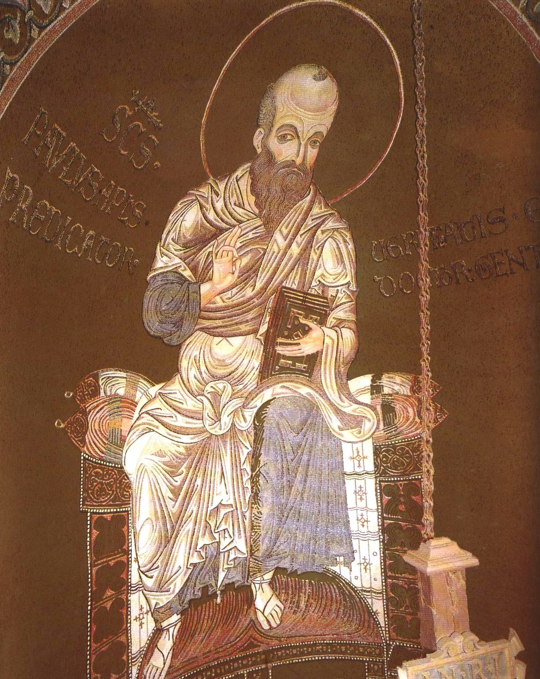 Apostle Paul - mosaic in Monreale Cathedral